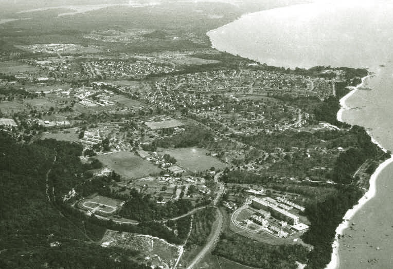 Military aerial photography of the base taken some time in 1963. Near Malacca in Malaysia.